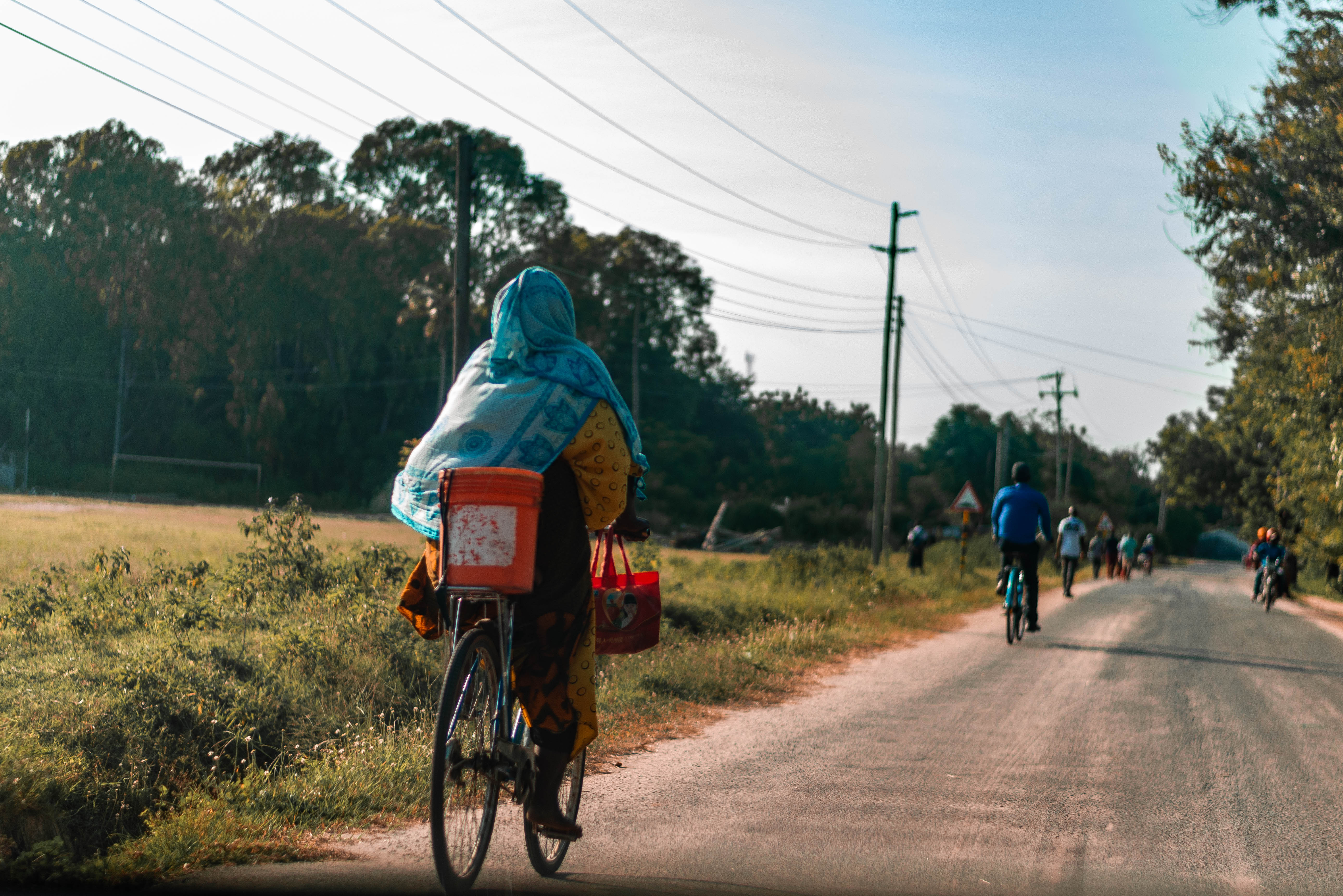 Bicycle is a well-known means of transport for both men and women especially at the coastal regions in Tanzania This is an image with the theme "Africa on the Move or Transport" from: Tanzania